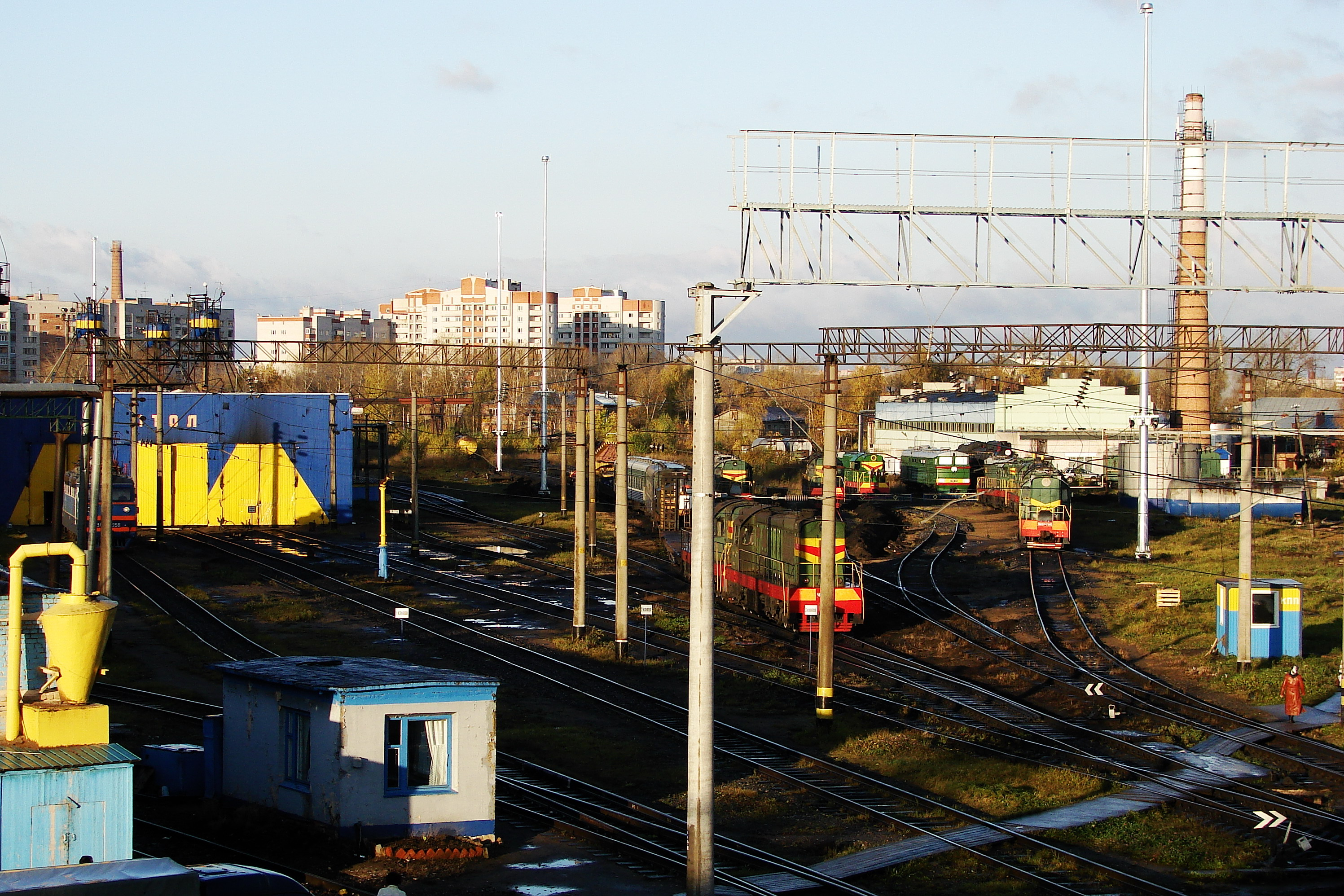 Russian Railways, Depot path